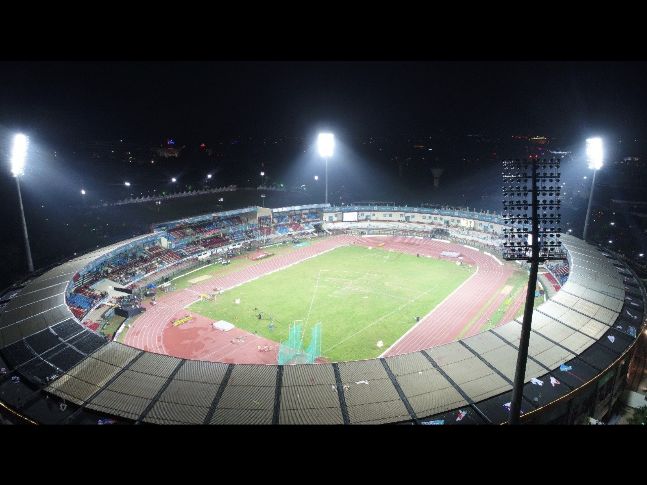 Aerial view of Kalinga Stadium